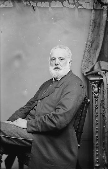 1 negative : glass, wet collodion, b&w ; 11 x 16.5 cm.